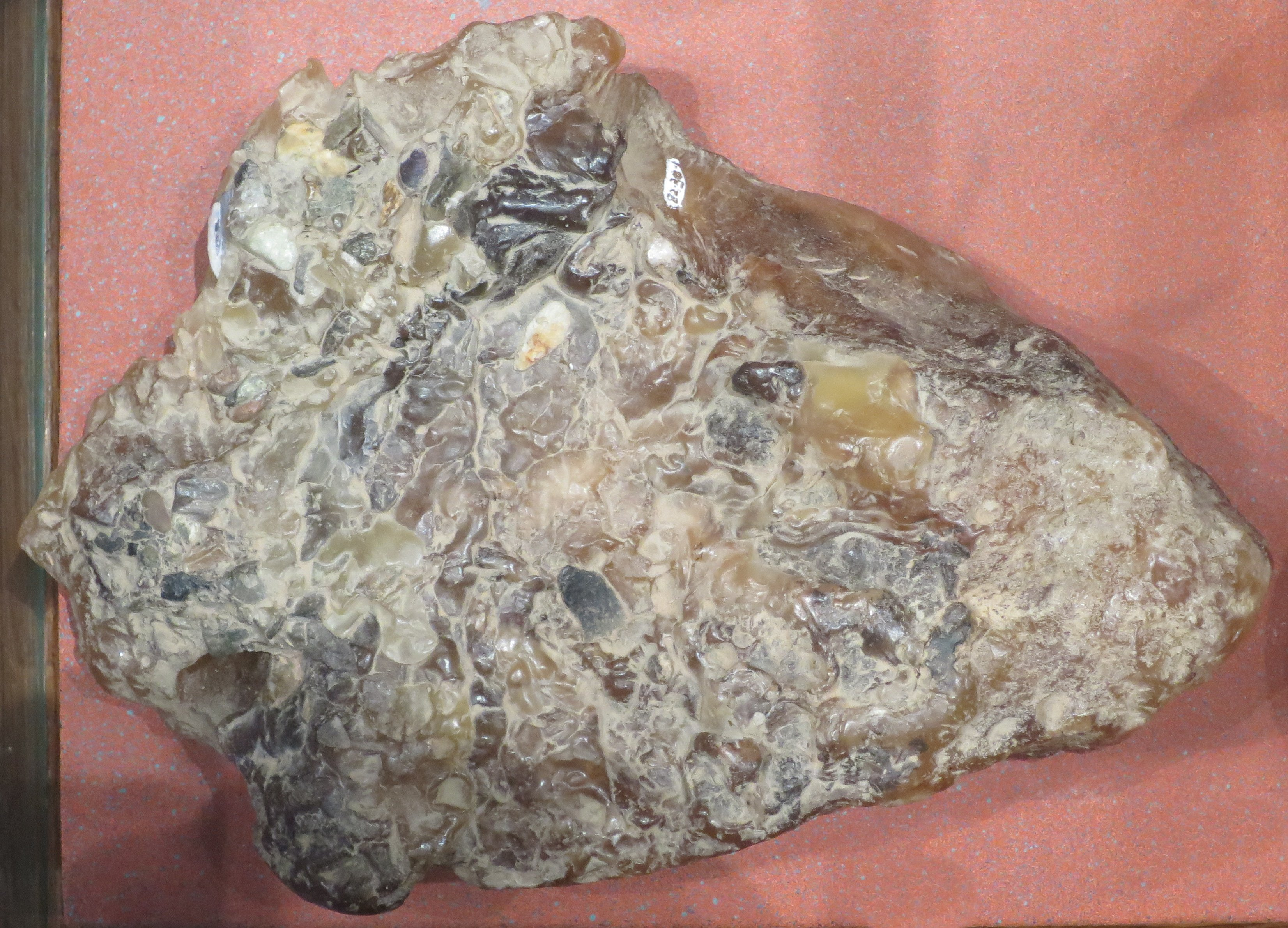 Ambergris, Skagway Museum